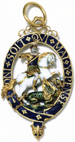 Badge of The Order of the Garter, England, About 1640, Width 4.5 cm x heighth 9.3 cm (maximum, estimated) V&A Museum no. 273-1869. Losslessly cropped from original.